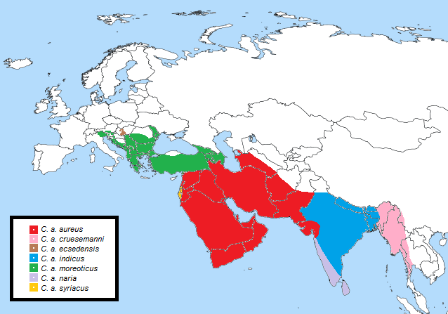 Golden jackal subspecies range